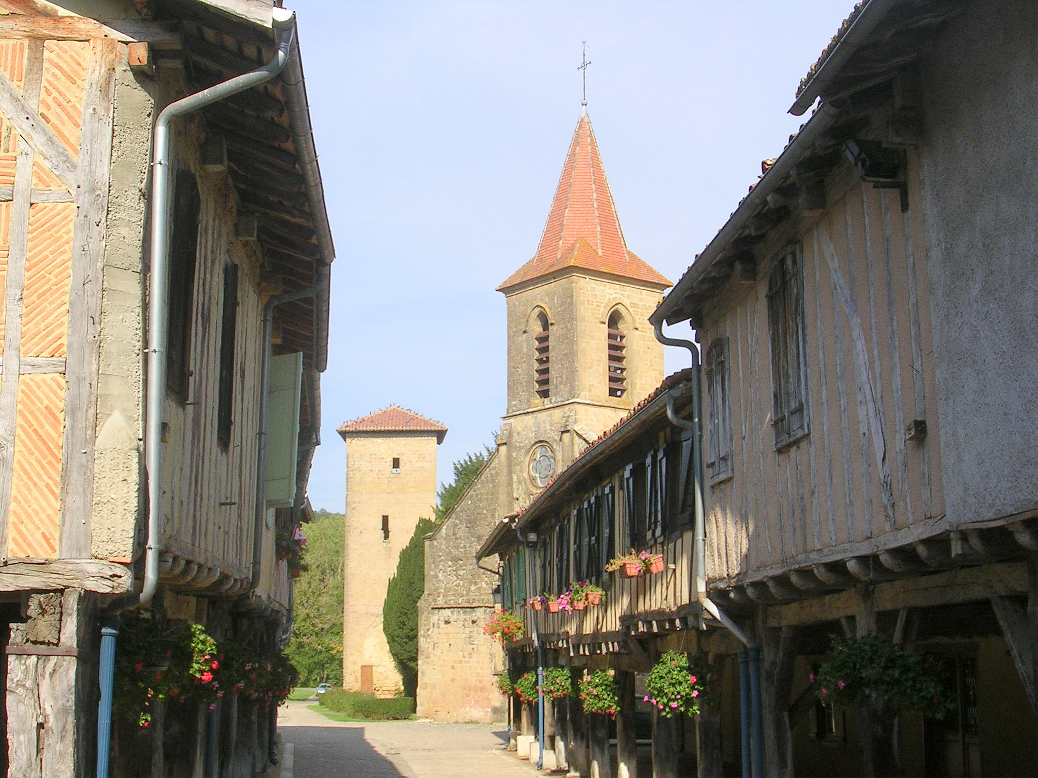 Tillac (Gers)